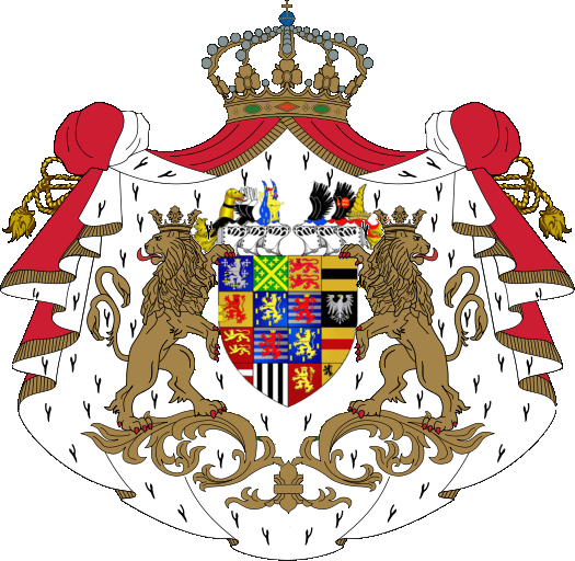 This picture shows coats of arms of Adolphe, Duke of Nassau and Grand Duc of Luxembourg, introduced in the year 1890